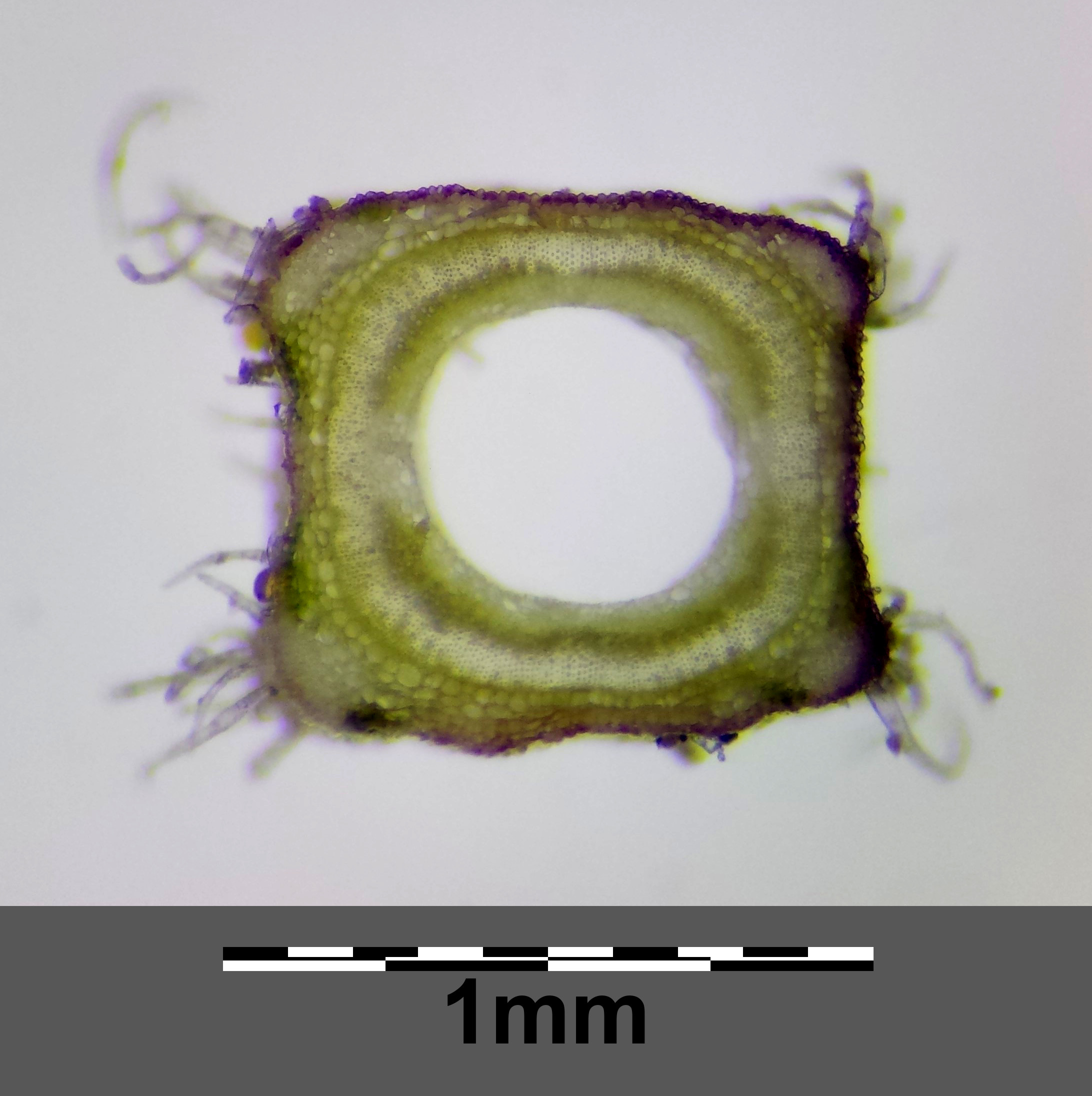 4-angled stem (sliced), hairy on the angles only (☿ individual) Taxonym: Thymus pulegioides subsp. pulegioides ss Fischer et al. EfÖLS 2008 ISBN 978-3-85474-187-9 Location: next to Griesbach, Groß-Gerungs, district Zwettl, Lower Austria - ca. 800 m a.s.l. Habitat: wayside/slope